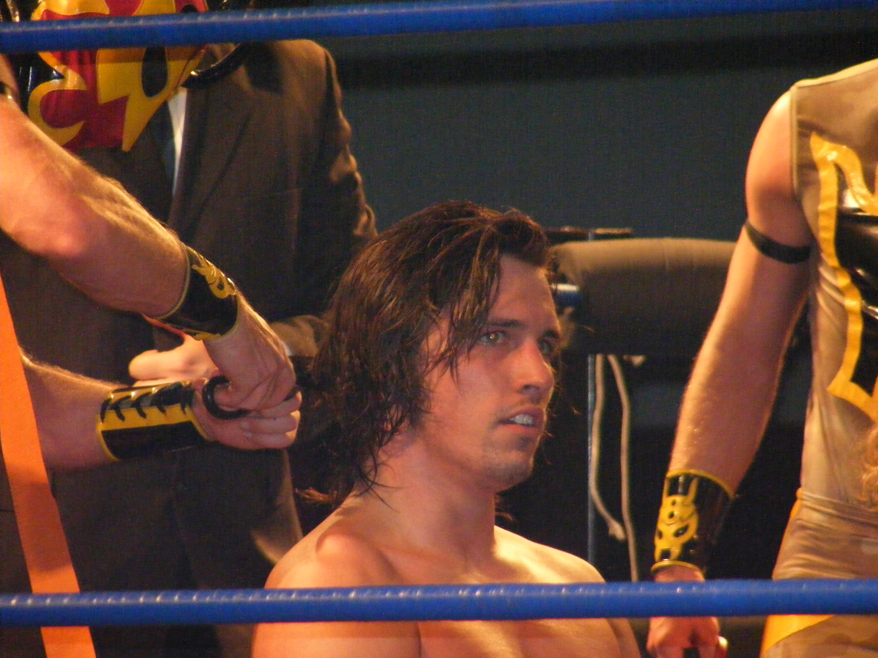 Professional wrestler Chuck Taylor (real name Dustin Howard) gets his hair cut after a Luchas de Apuestas match at a Chikara show on May 24, 2009 in Philidelphia.